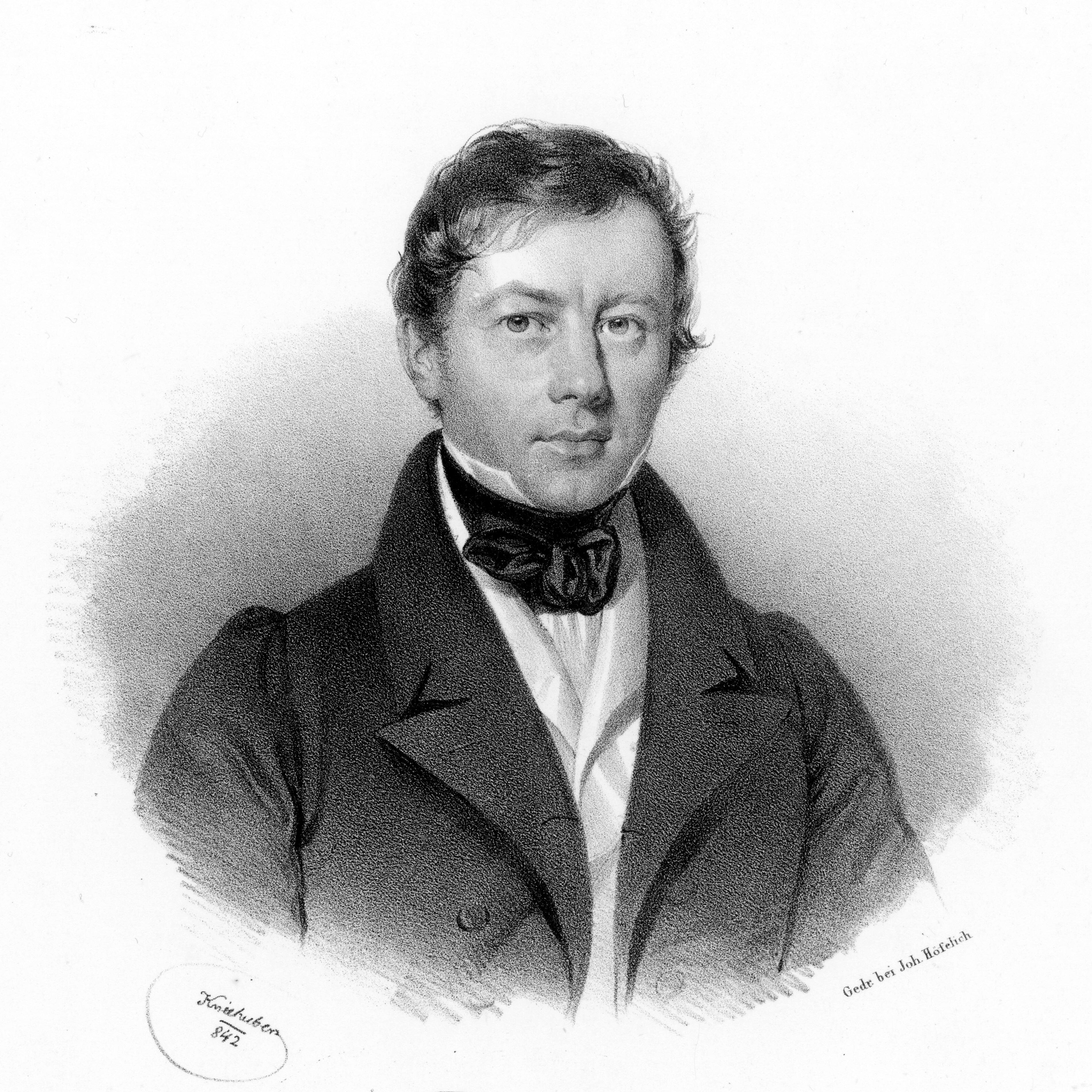 Depicted person: Tobias Haslinger